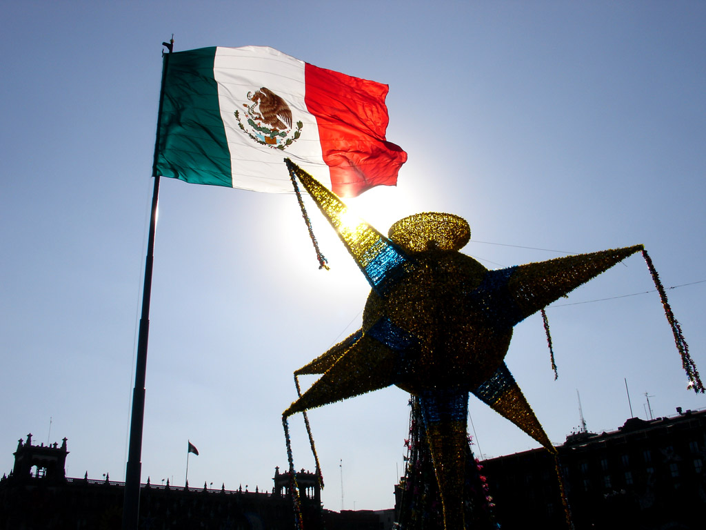 Monumental flag and piñata at the Zócalo of Mexico City. December 2006.